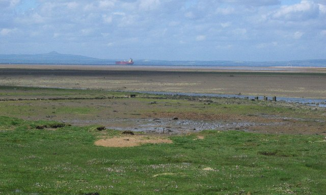 Aberlady Bay